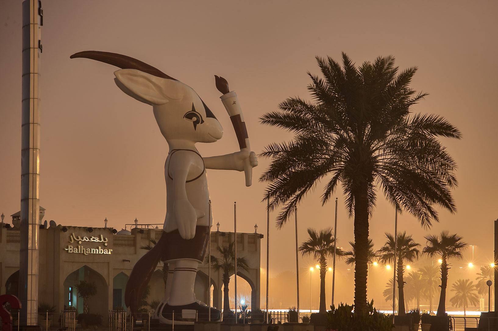 Orry the Oryx, mascot of the 15th Asian Games, on the Corniche in Doha, Qatar on a foggy night. Belhambar Restaurant is in the background.